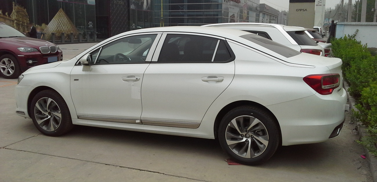 DS 5LS photographed in Beijing, China.